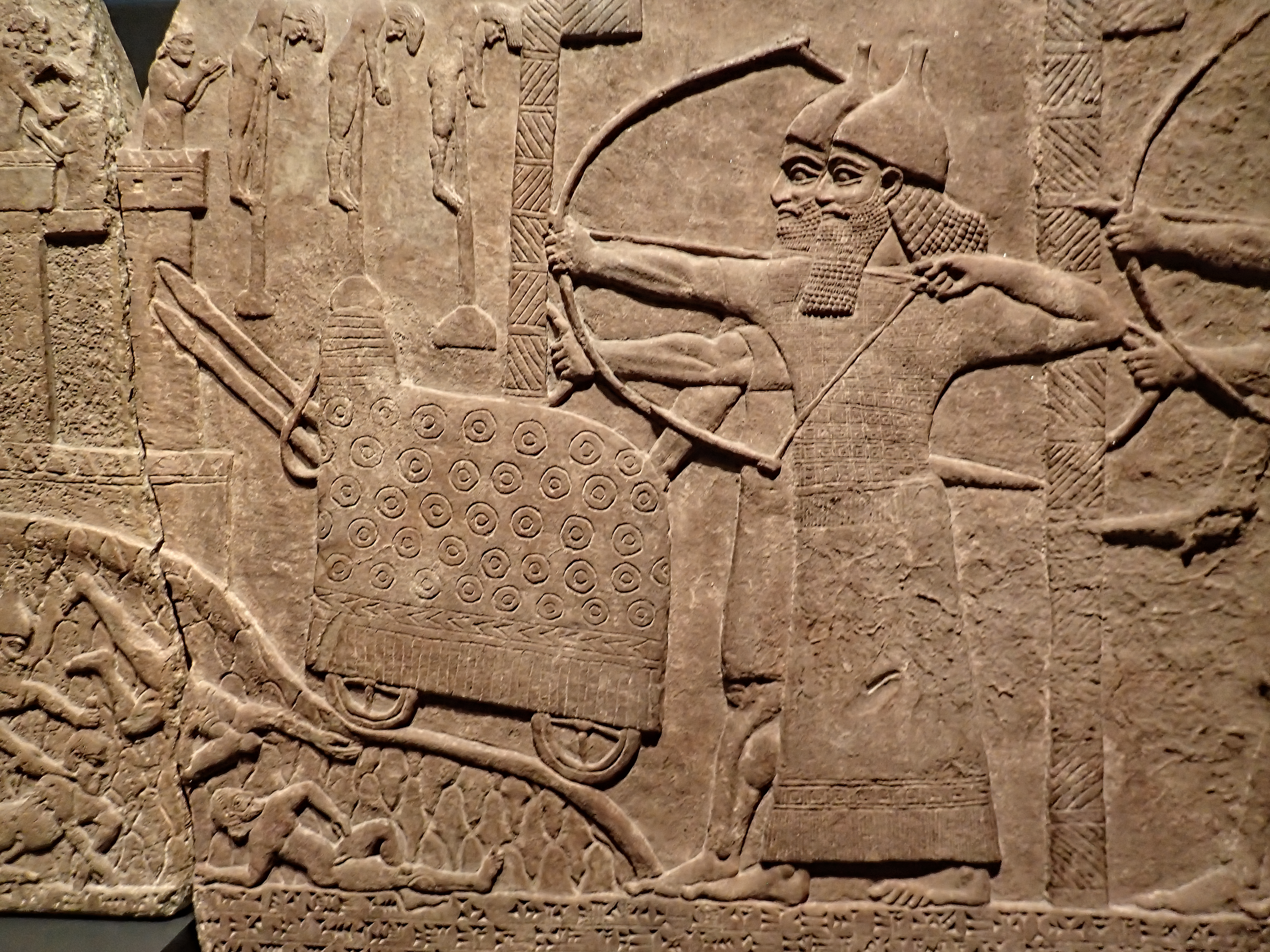 Assyrian relief of attack on an enemy town during the reign of Tiglath-Pileser III 720-737 BCE from his palace at Kalhu (Nimrud), gypsum, now in the collections of the British Museum on loan to the Getty Villa